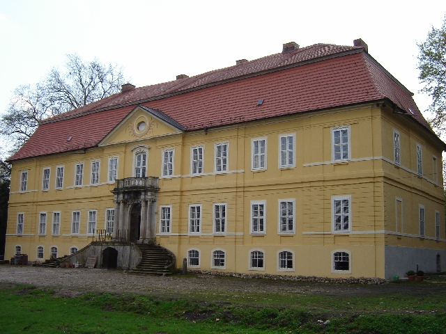 Palace in Pietzpühl (Saxony-Anhalt)